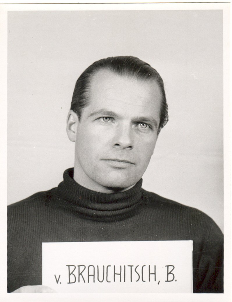 Bernd von Brauchistsch as a witness during the Nuremberg Trials.